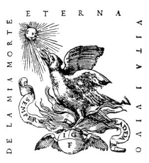 Printer's device of Gabriele Giolito de' Ferrari